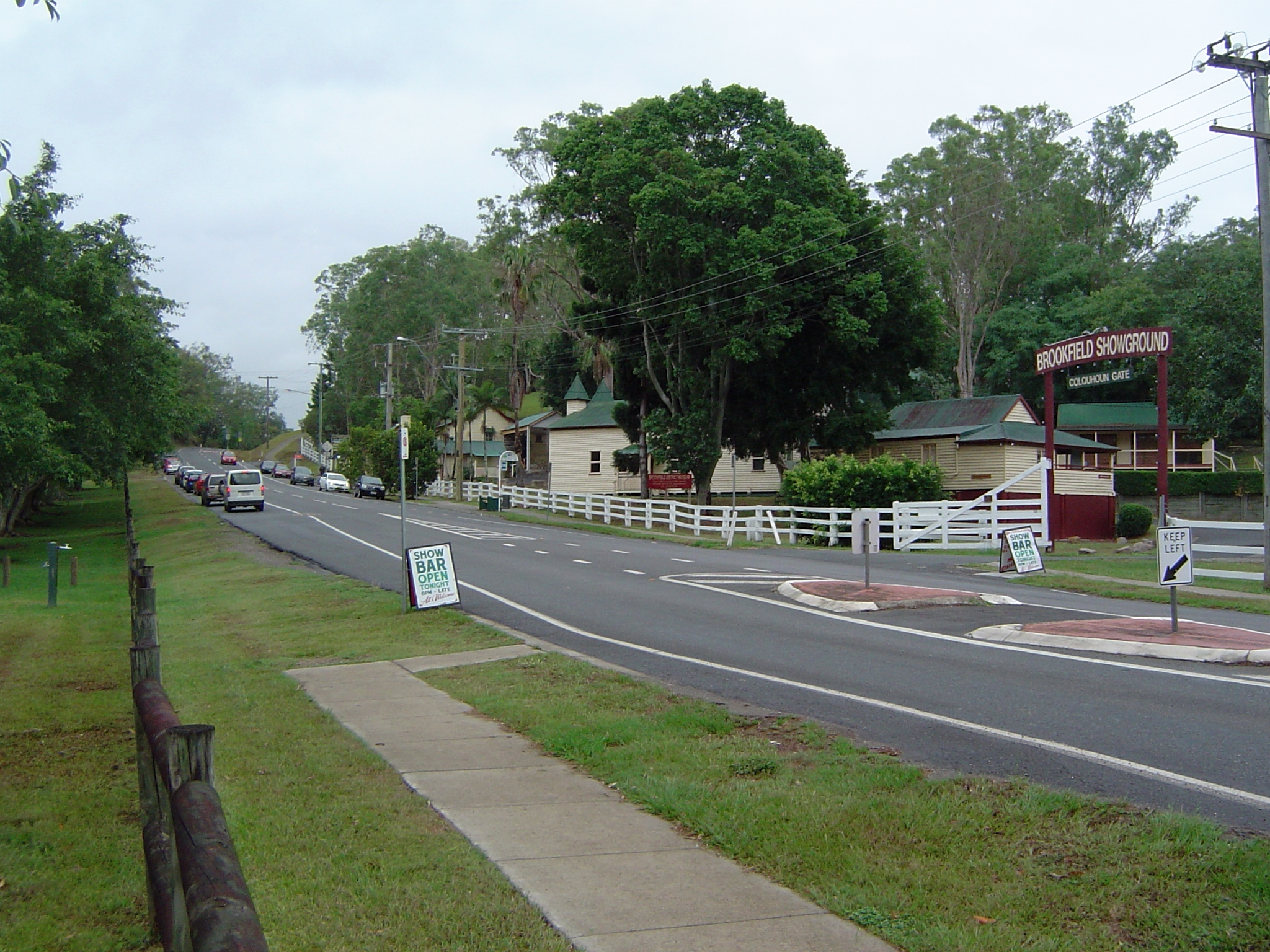 Photo of Brookfield Road at Brookfield, Queensland, Australia. Brookfield showgrounds entrance is seen in the right of the image.